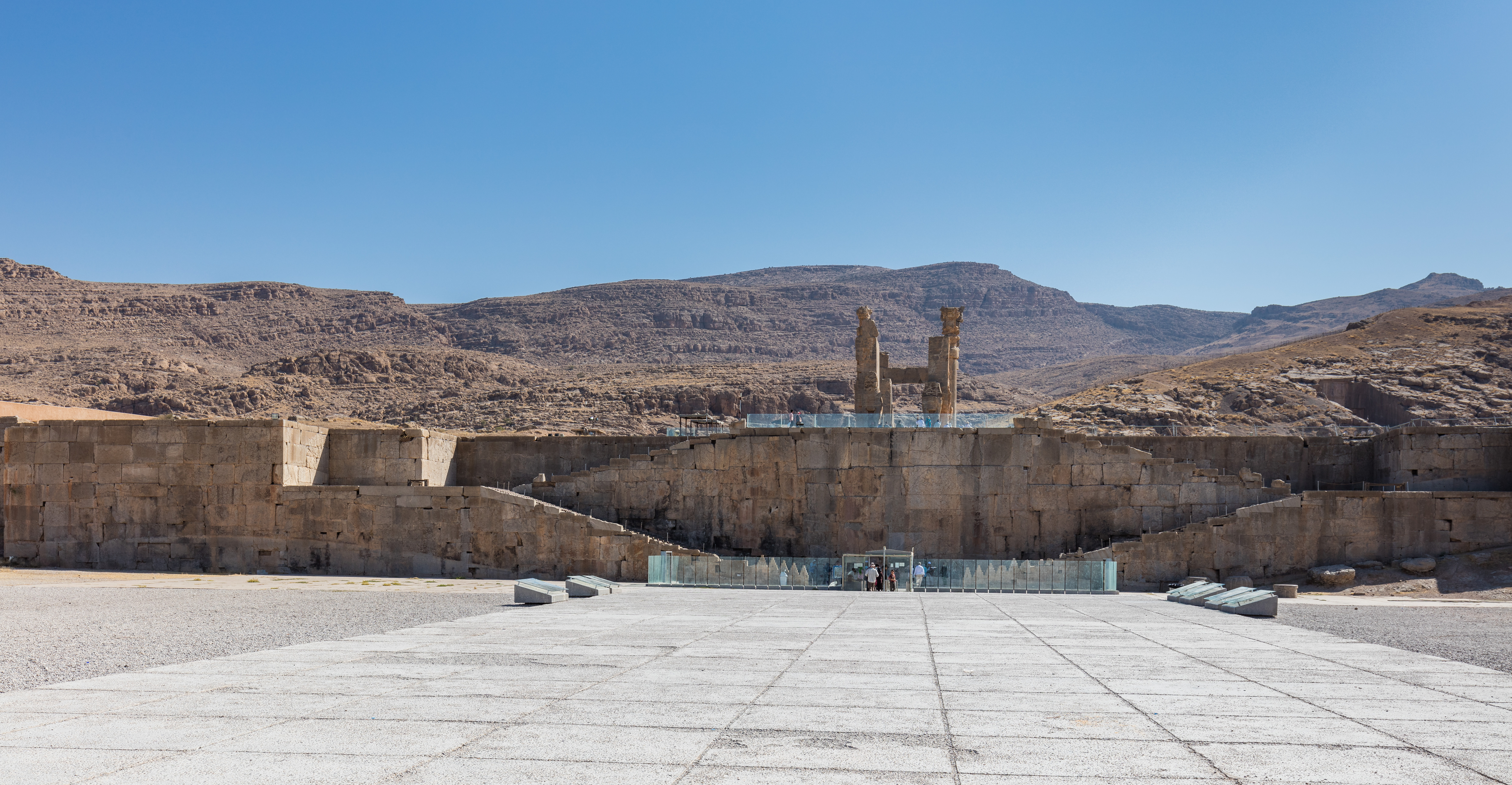 Persepolis, Iran